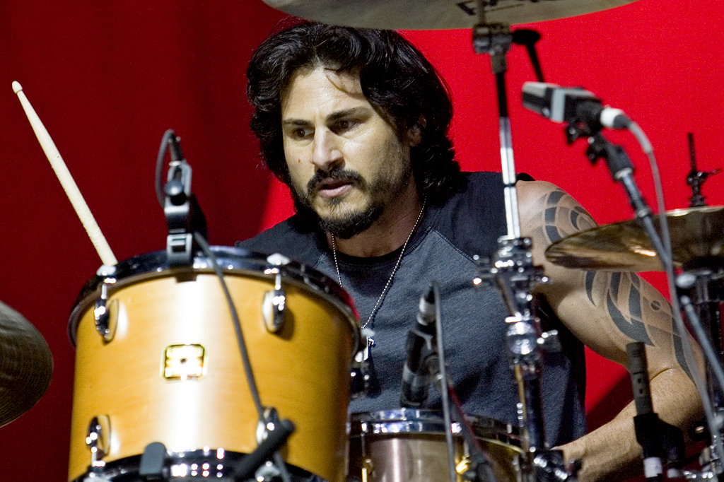 Brad Wilk July 2008, drummer in Rage Against the Machine at Optimus Alive '08 (10.-12. July) in Lisbon, Portugal